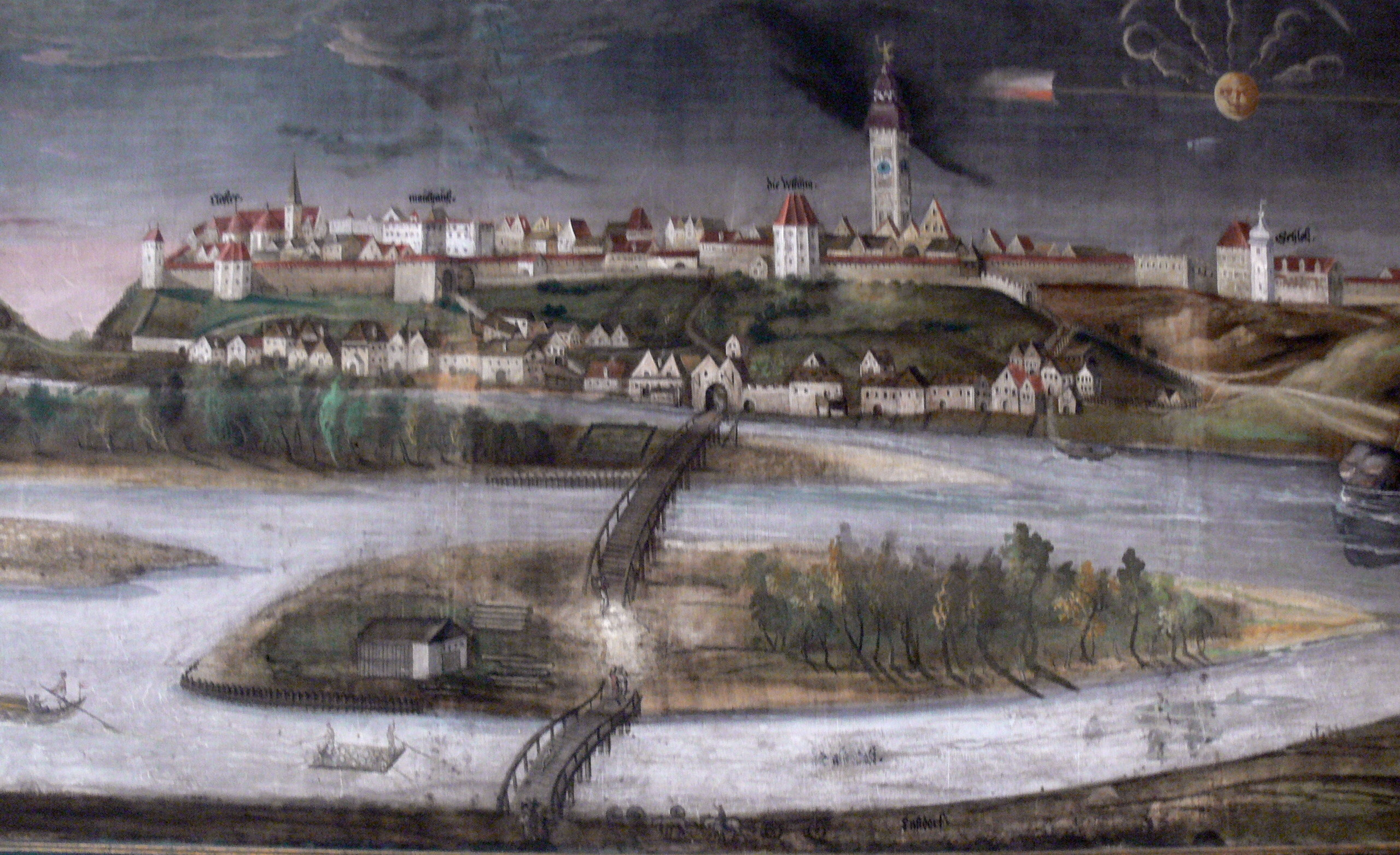 Enns ( Upper Austria ). Museum Lauriacum: View of Enns from the east ( 1593 ) by Caspar Vischer.